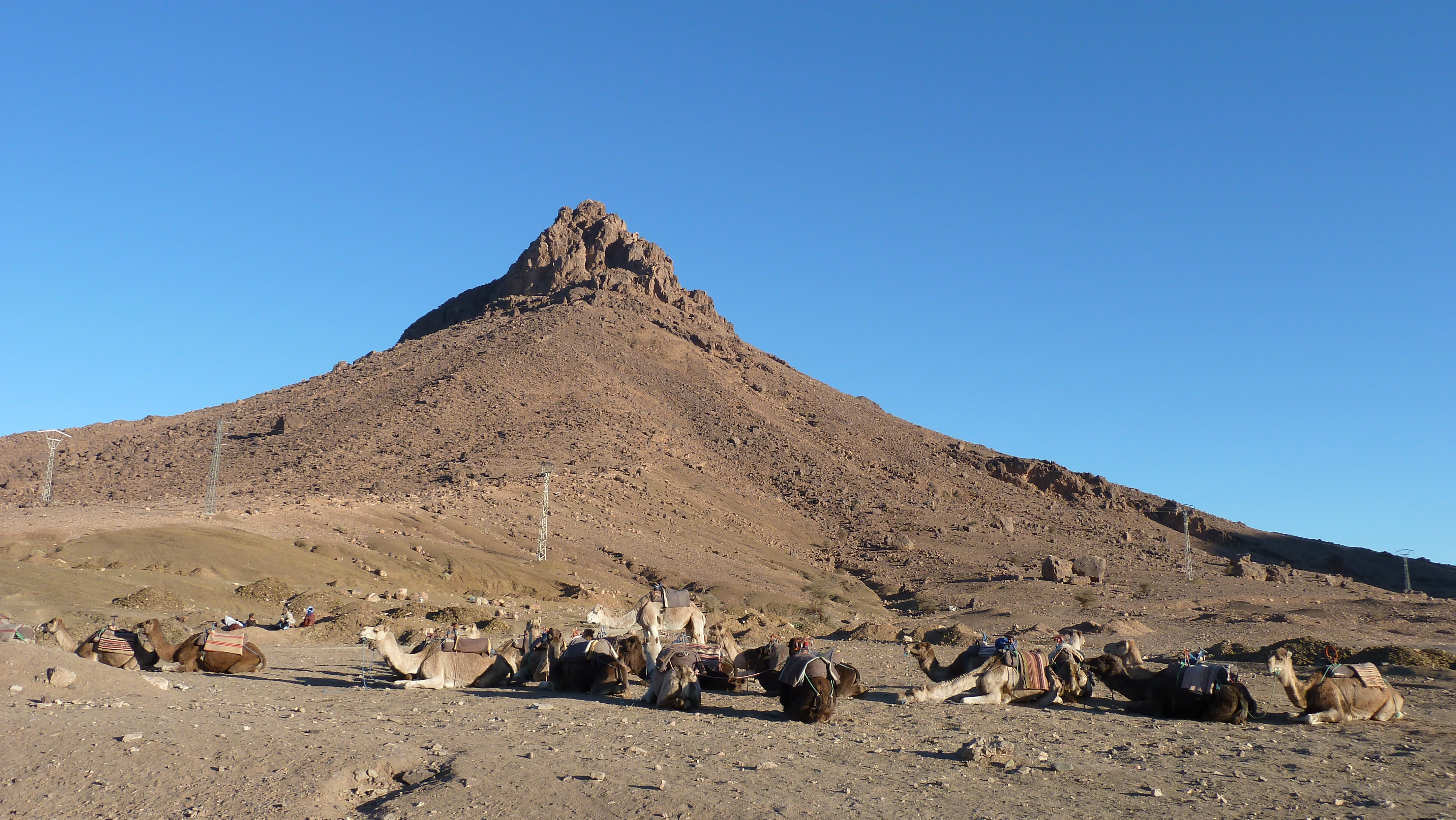 Zagora (Arabic: زكورة) is a town in the valley of the Draa River in Souss-Massa-Draâ, southeastern Morocco. It is located at around 30°19′50″N 5°50′17″W / 30.33056°N 5.83806°W / 30.33056; -5.83806Coordinates: 30°19′50″N 5°50′17″W / 30.33056°N 5.83806°W / 30.33056; -5.83806. It is flanked by the mountain Zagora from which the town got its name. Originally it was called 'Tazagourt' (ⵜⴰⵣⴰⴳⵓⵔⵜ) the singular of plural 'Tizigirt' (ⵜⵉⵣⵉⴳⵉⵔⵜ), Berber for 'twinpeaks', referring to the form of the mountain. In old European maps the mountain Zagora is already indicated but the town itself was only built in the 20th century. On the top of the Zagora mountain the remains of an Almoravid fortress can still be seen. [1] The exact location of the former Almoravid mosque is still a matter of dispute. Each year the moussem (festival) of the Sufi saint moulay Abdelkader Jilali is celebrated at Zagora. A well known sign at the town border states "Tombouctou 52 jours", the supposed time it takes to get to Timbuktu, Mali on foot or camel.